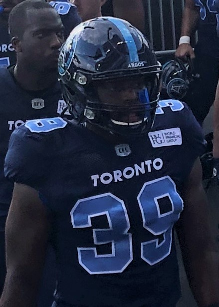 Robbie Smith, defensive lineman for the Toronto Argonauts.